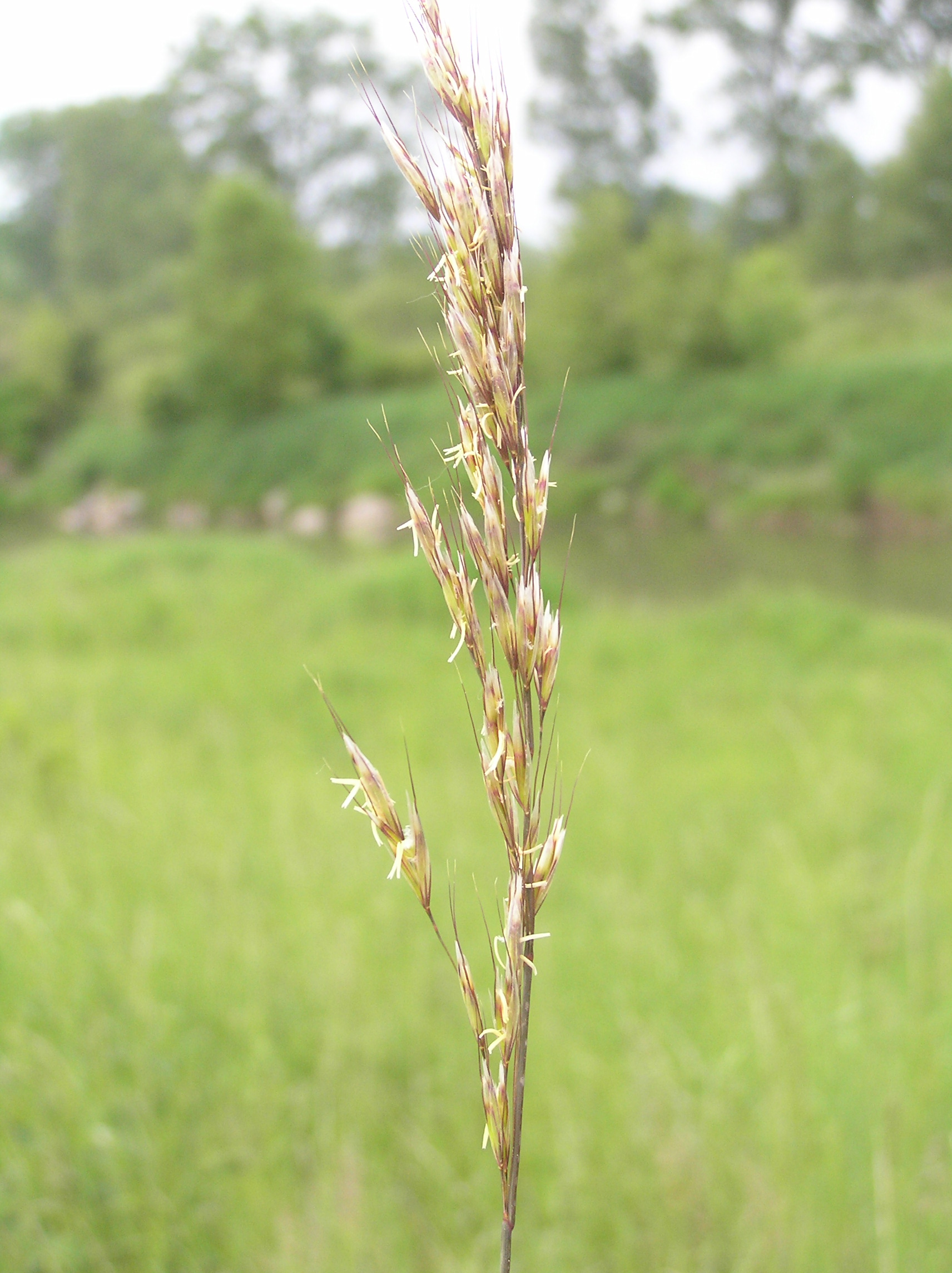 Avenula pubescens, Dub nad Moravou, Moravia, Czech Republic